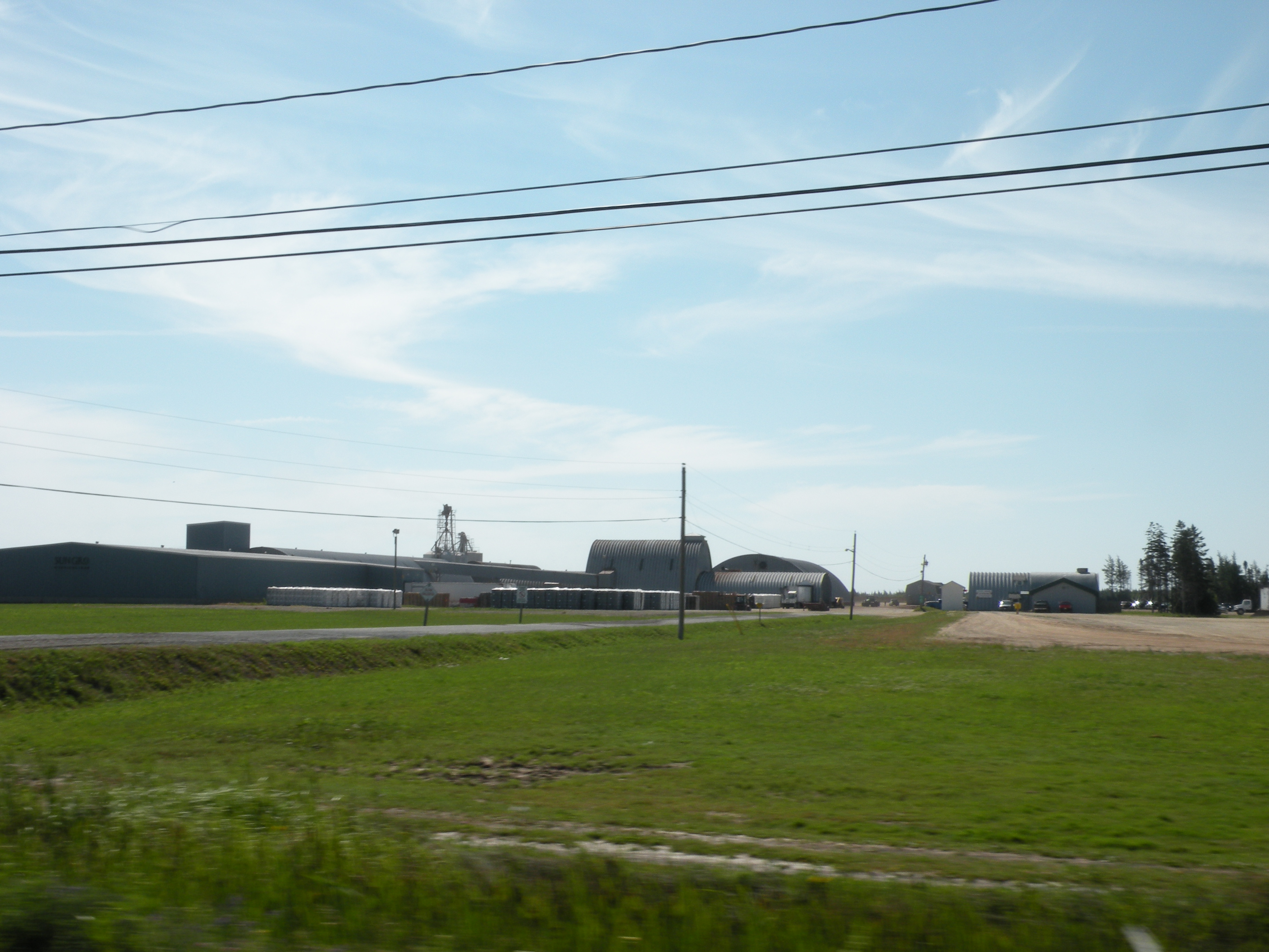 Sun Gro peat moss plant in Lamèque, New Brunswick, Canada.